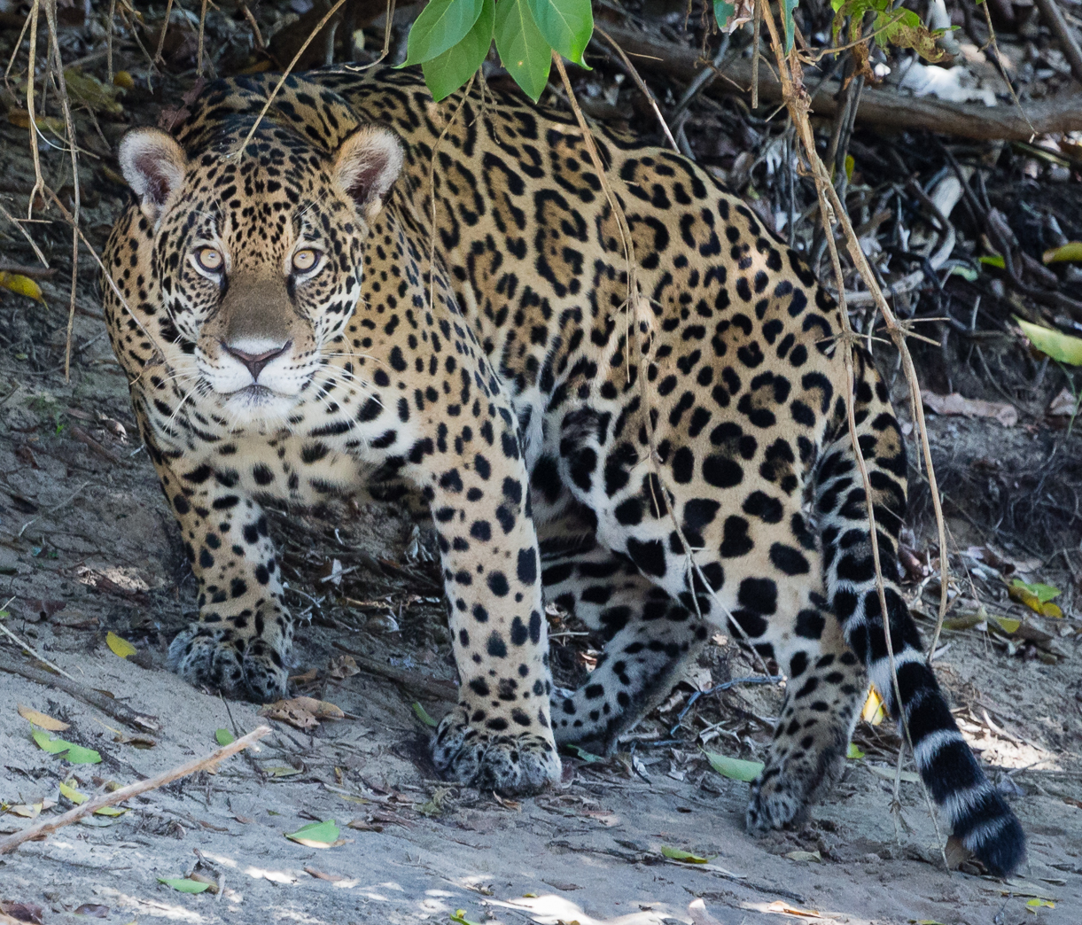 A jaguar (Panthera onca) in Pantanal, Miranda, Mato Grosso do Sul, Brazil.